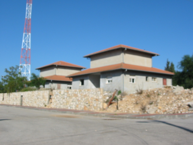 Houses under construction in Hermesh